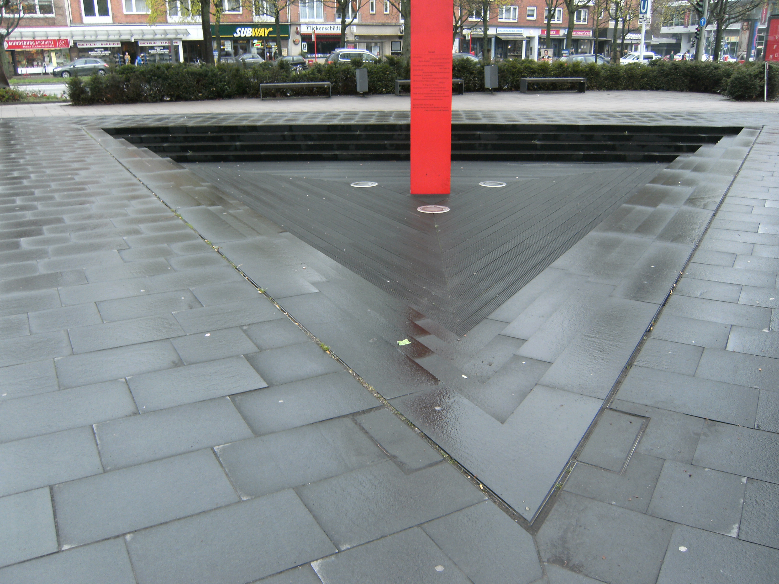 Private theatre Ernst Deutsch Theater in Hamburg-Mundsburg, Germany. Part of the red column monument with triangular base.